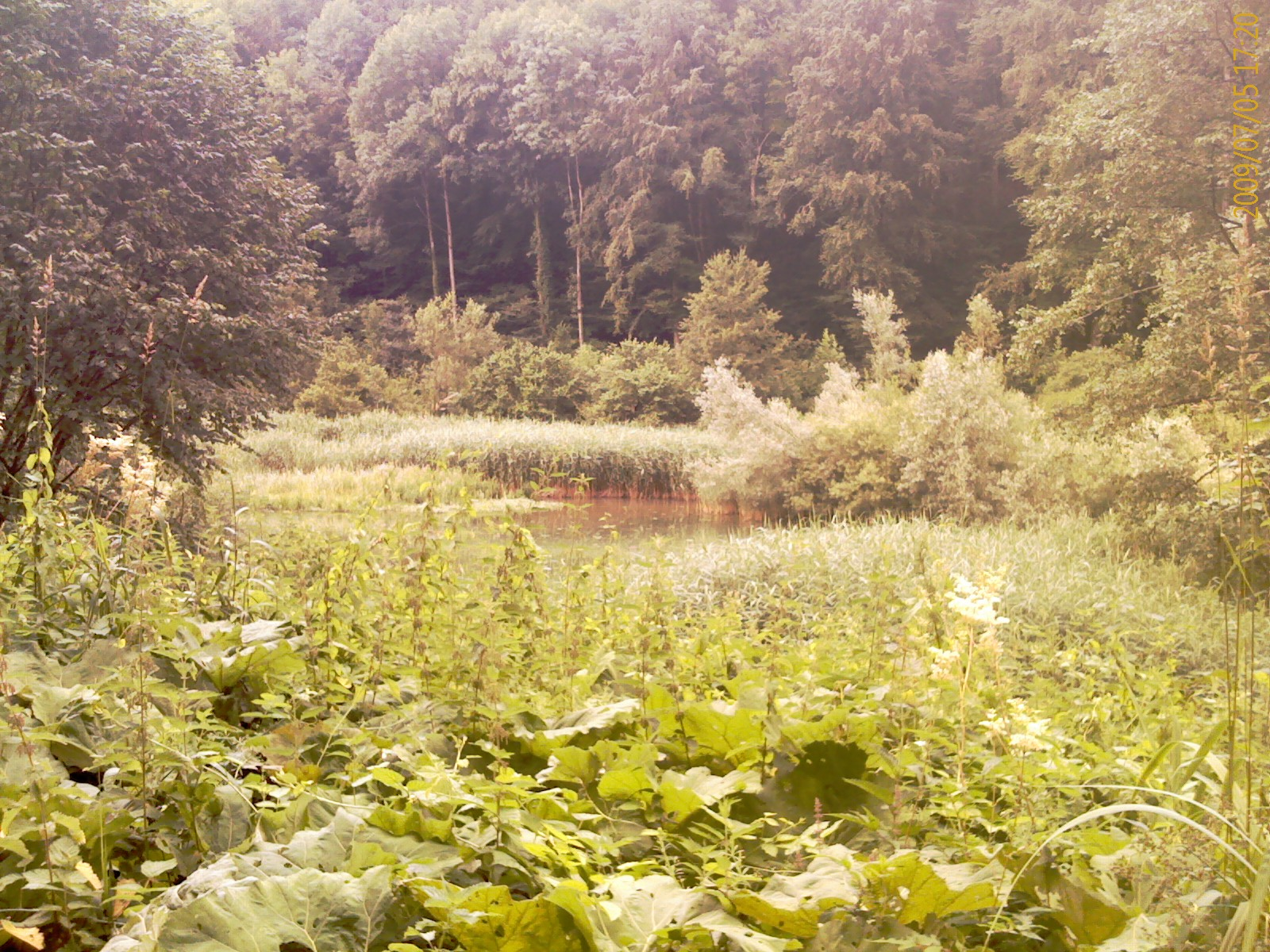 Talweiher, Anwil, canton of Basel-Country, SwitzerlandEsperanto: Talweiher, Anwil, Kantono Bazelo Kampara, Svislando